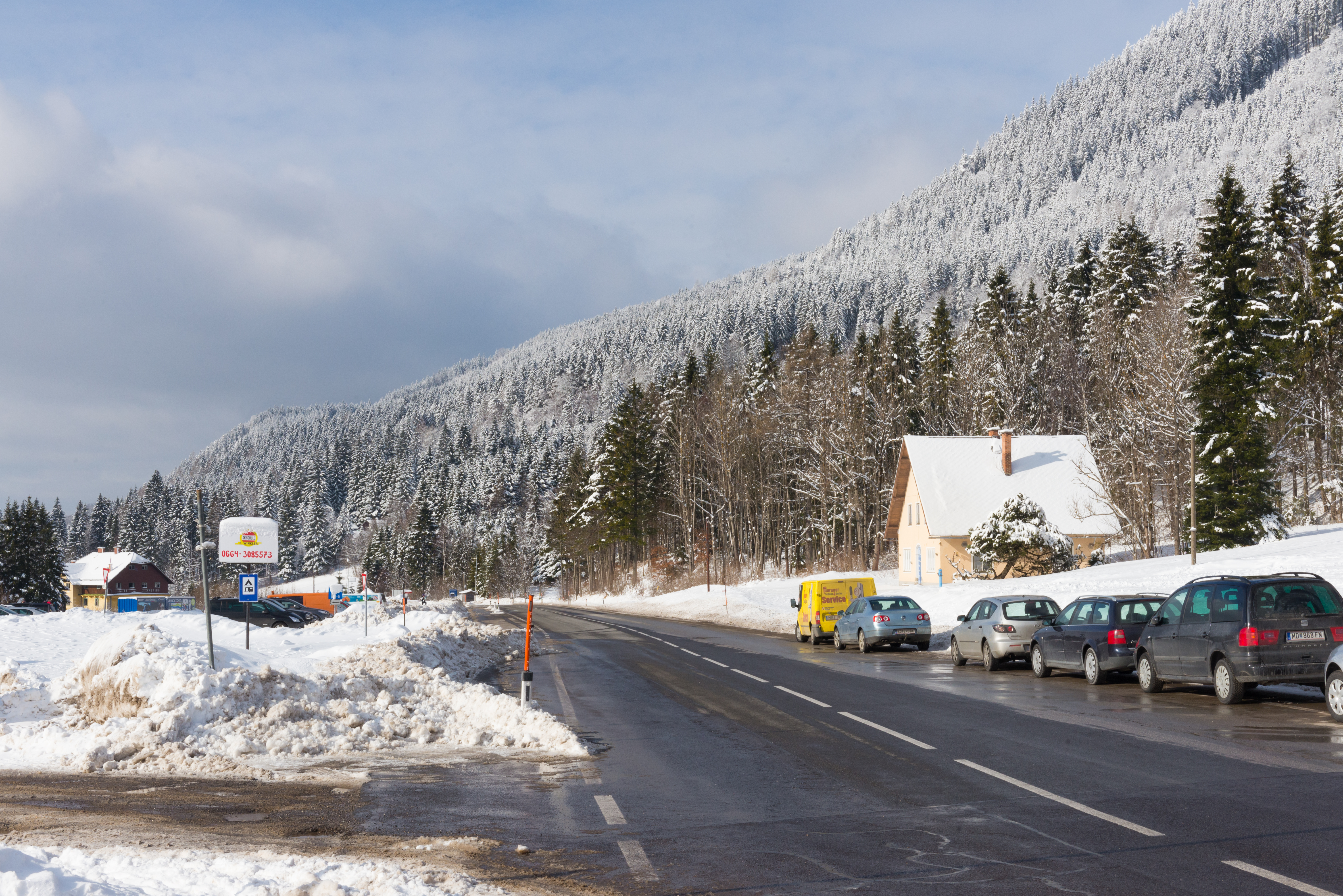 The styrian side of the Semmering pass near its top.